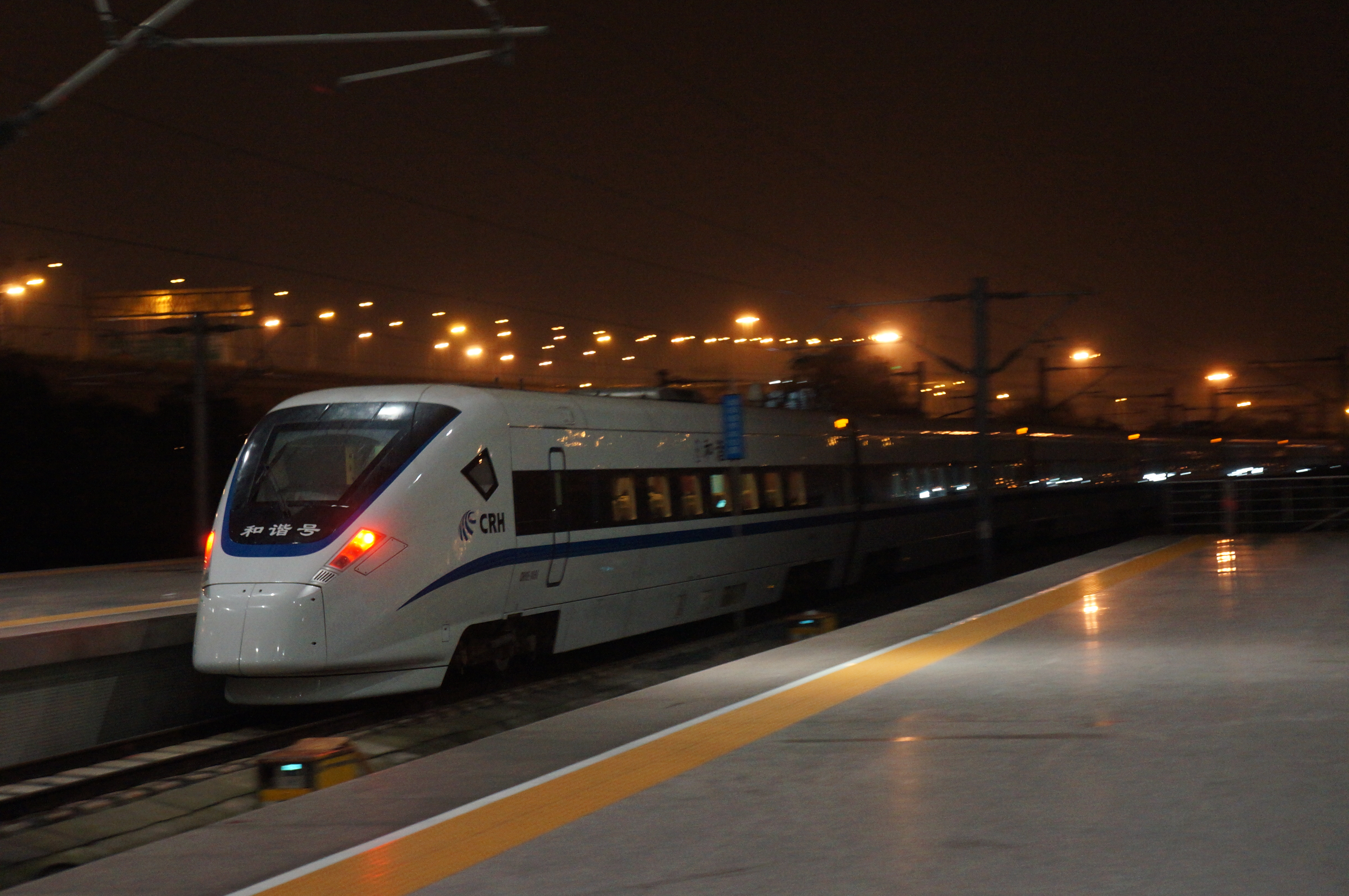 201701 D941 (extends to Zhuhai since 2017-01-05) departs from Shanghai Hongqiao Station